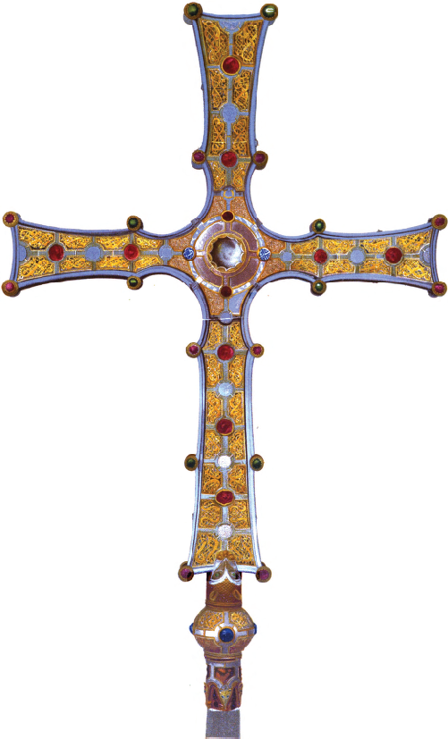 book describing the Cross of Cong